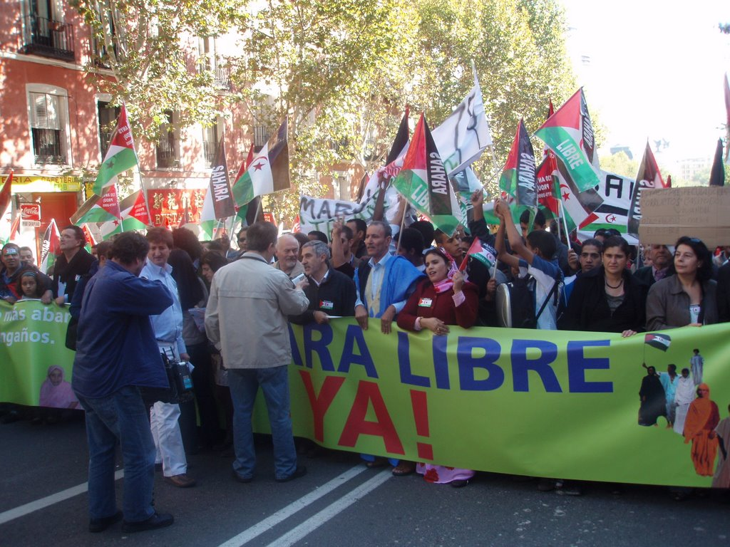 Demonstration in Madrid 11-11-2006 in support of Western Sahara's self determination.